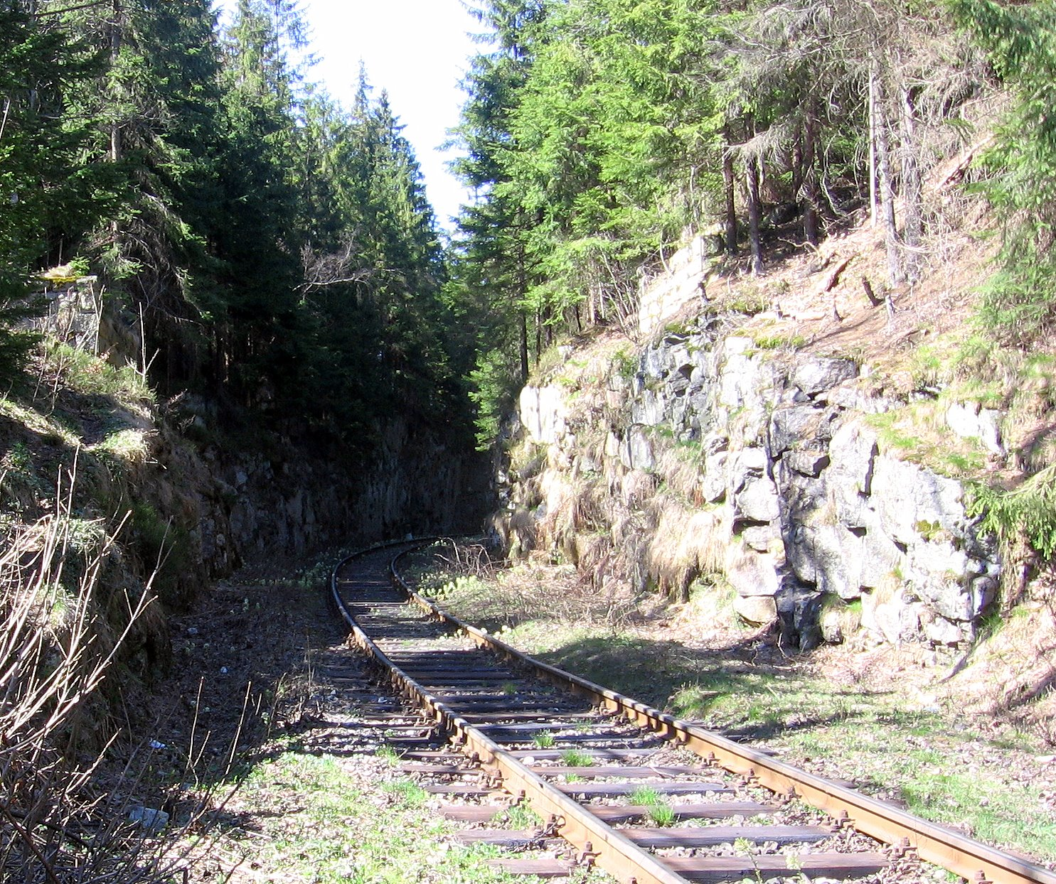 Harrachov-Mýtiny (Czech Republic) - railway